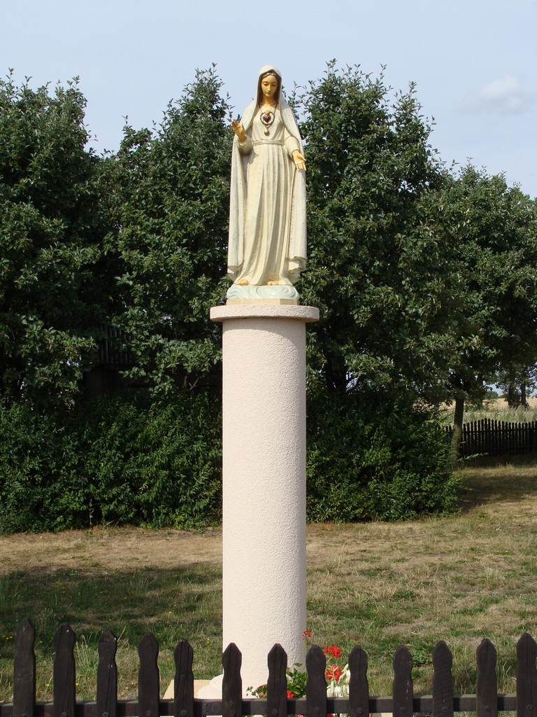 Międzychód, roadside shrine.